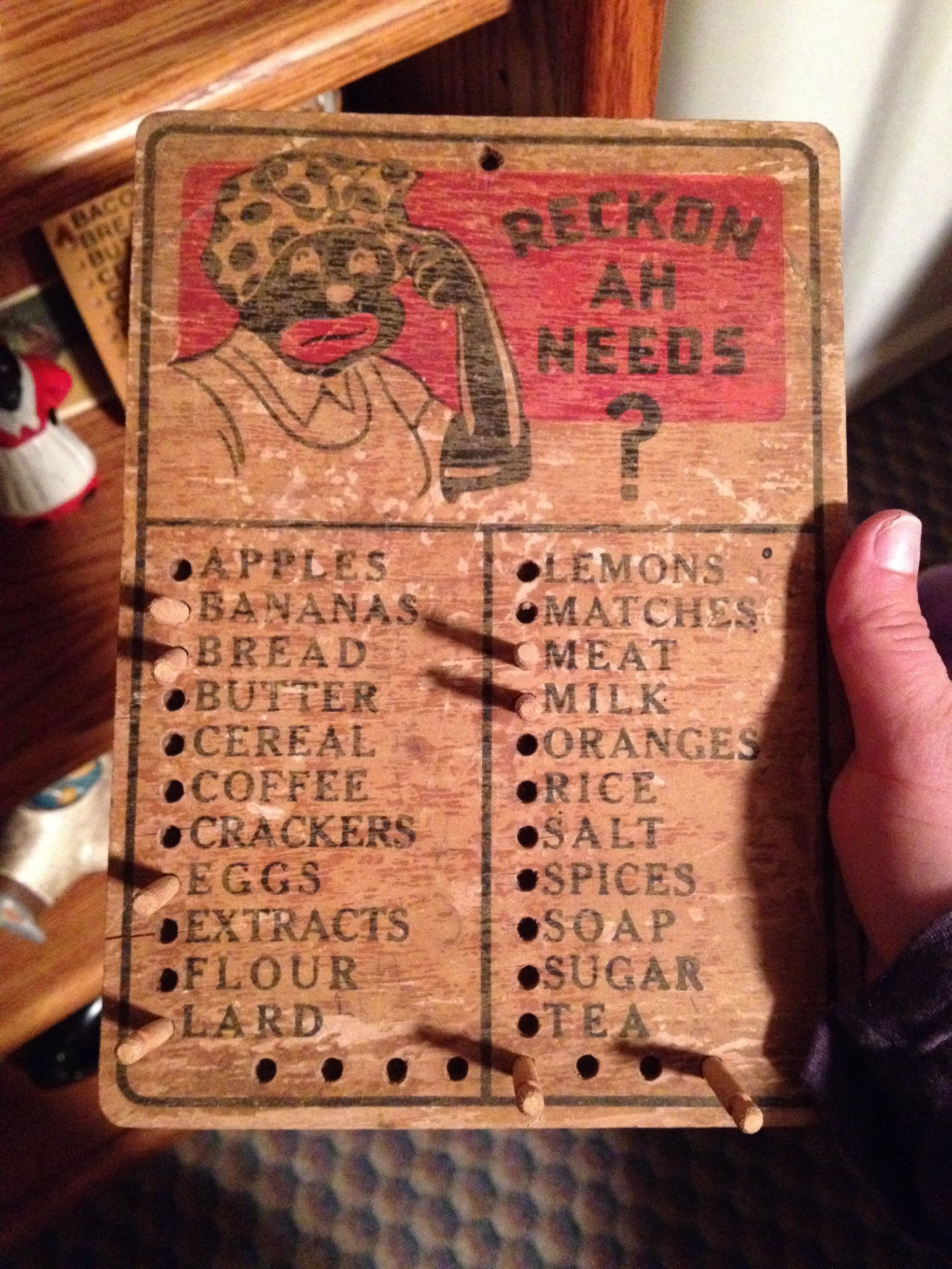 Todo list with a blackface graphic for servants to use.